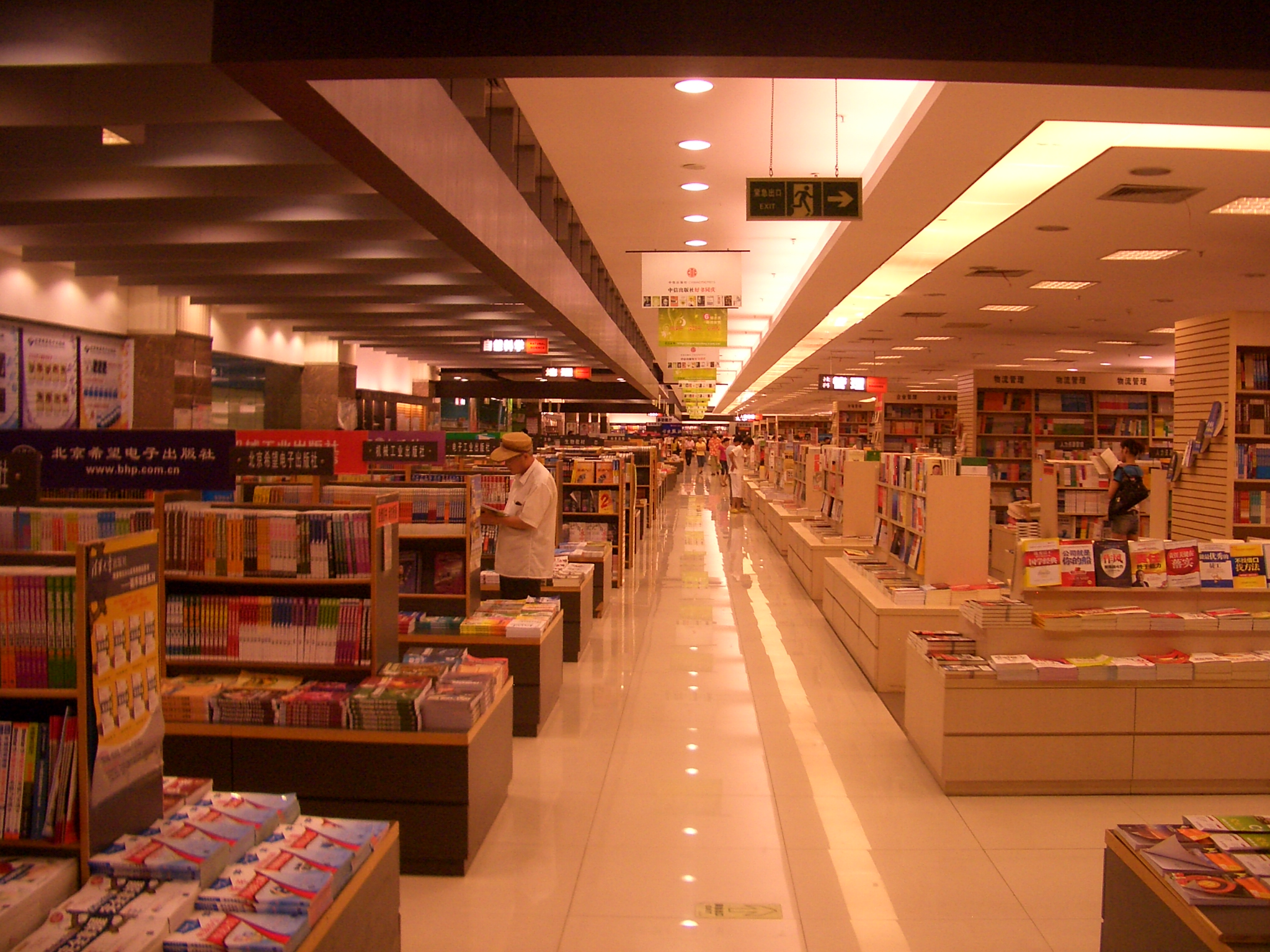 Inside Chongwen Book City - the book store in Wuhan's Chongwen Plaza. It may be the largest bookstore in the city